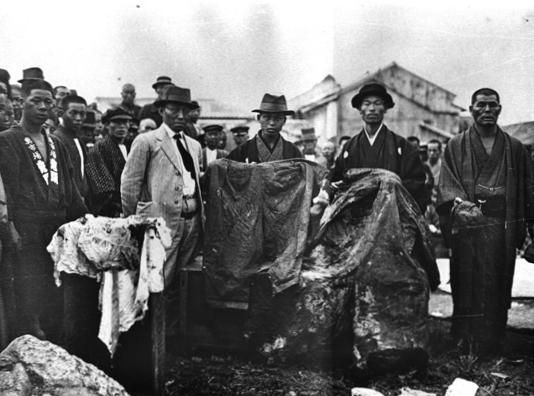 Catalog #: BIOC00170 Last Name: Champion First Name: Frank Notes: Bleriot aircraft Bleriot aircraft Repository: San Diego Air and Space Museum Archive